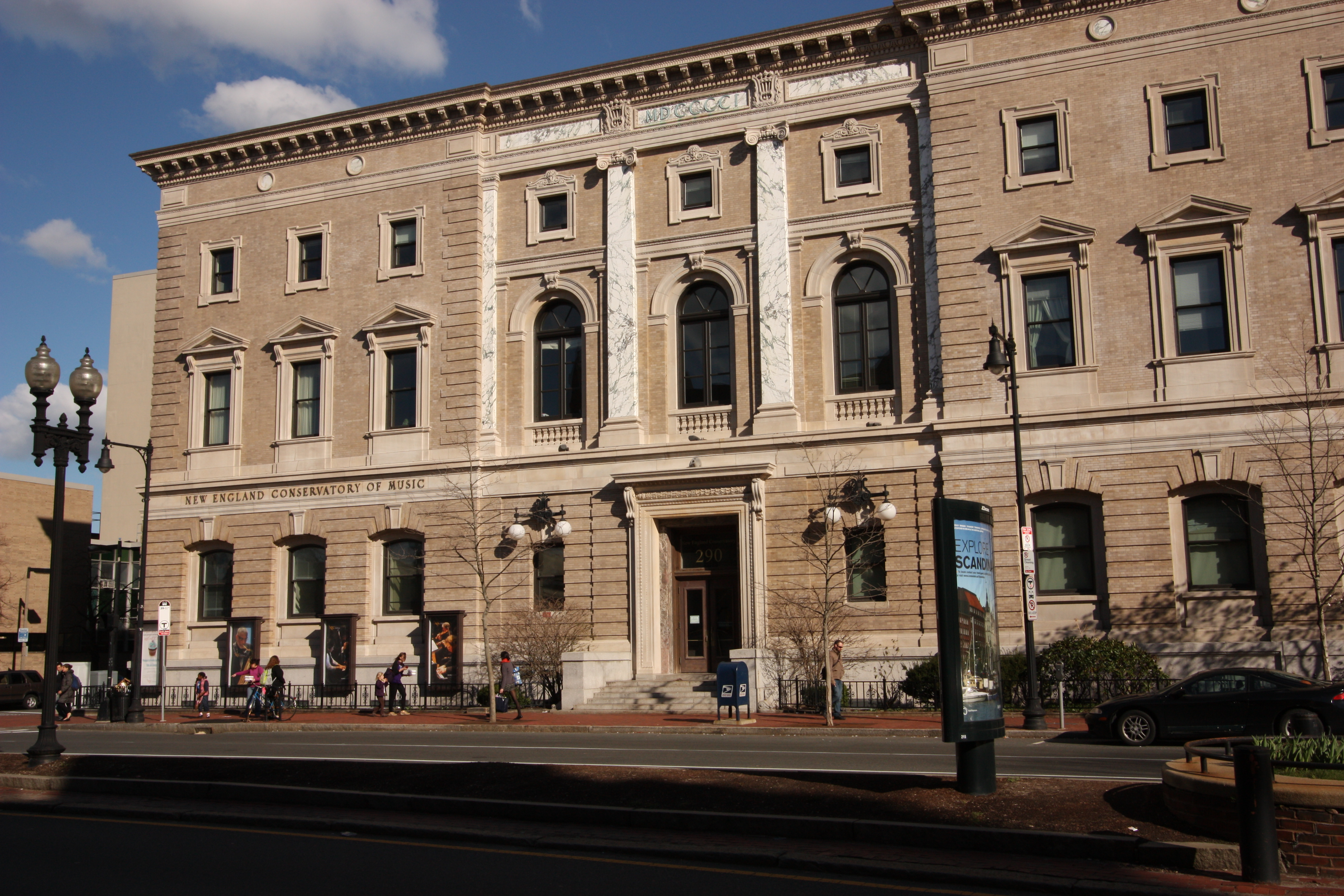 A building used by the New England Conservatory of Music. Part of the Wikipedia Takes Boston scavenger hunt.